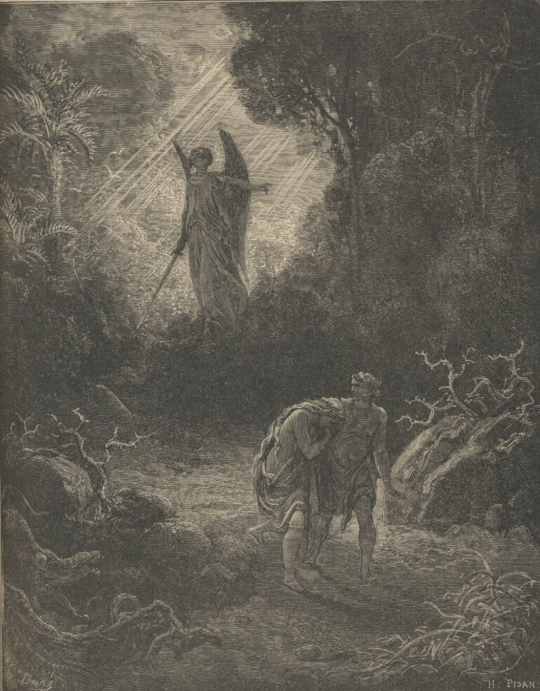 Illustration by Gustave Dore.